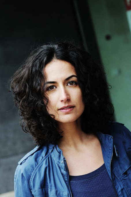 Sanam Afrashteh; German singer, actress